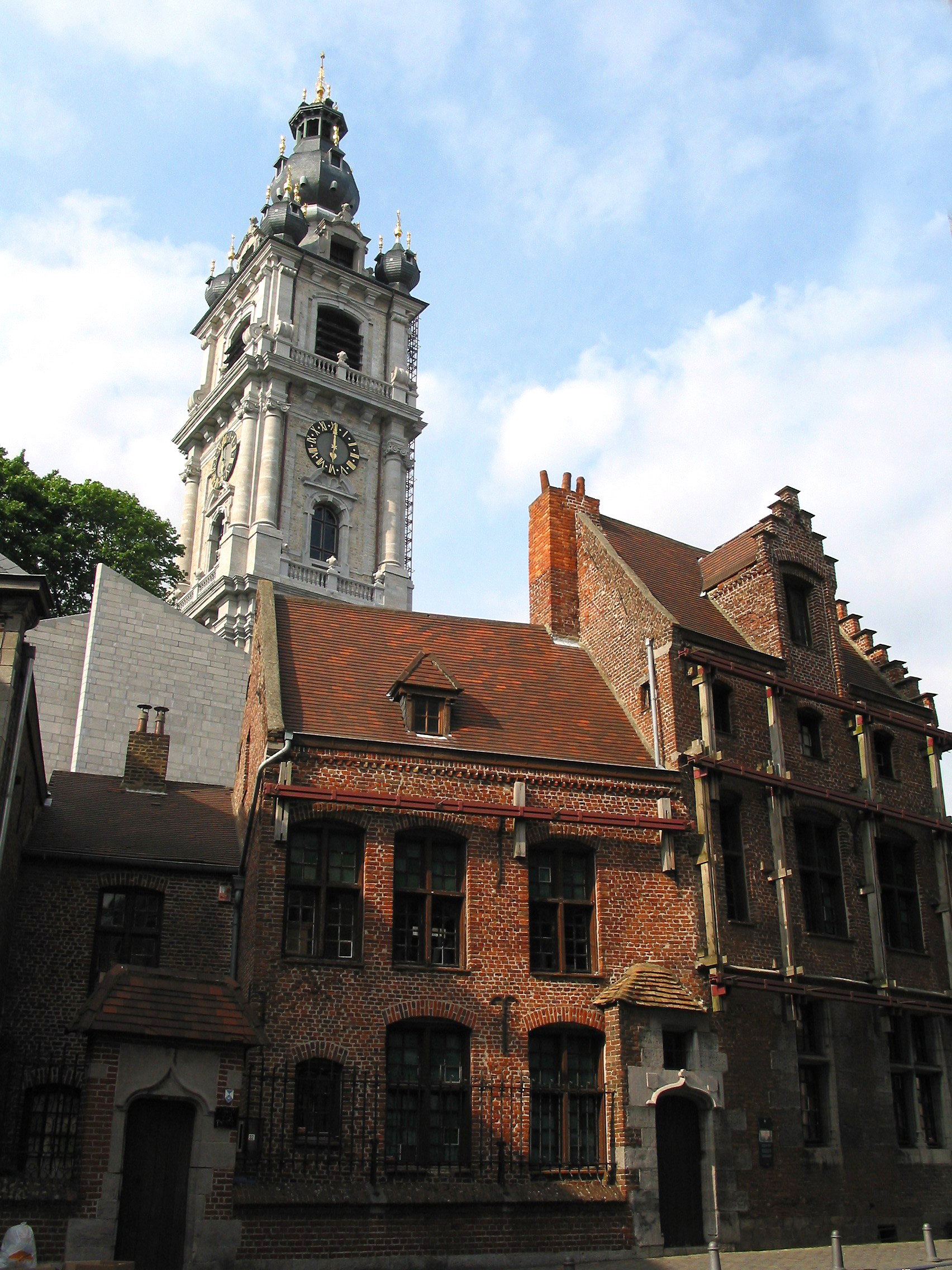 Mons (Belgium), the belfry (1661-1669) and the old Spanish House (XVIth century).